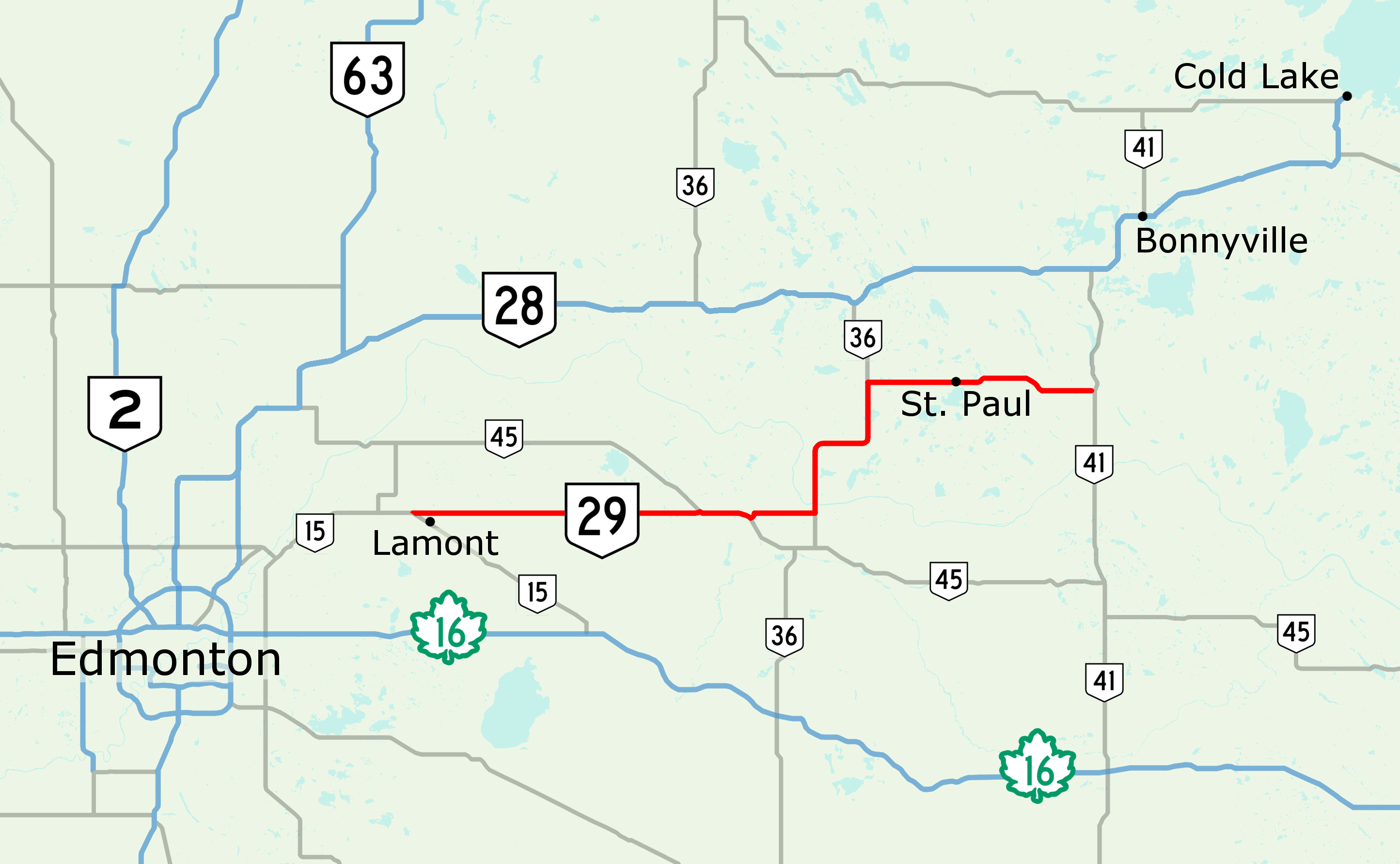 Highway 29 in north-central Alberta, Canada. - created with OpenStreetMap